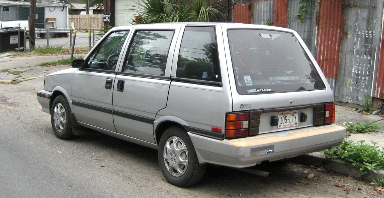 New Orleans: Nissan Stanza in Bywater neighborhood